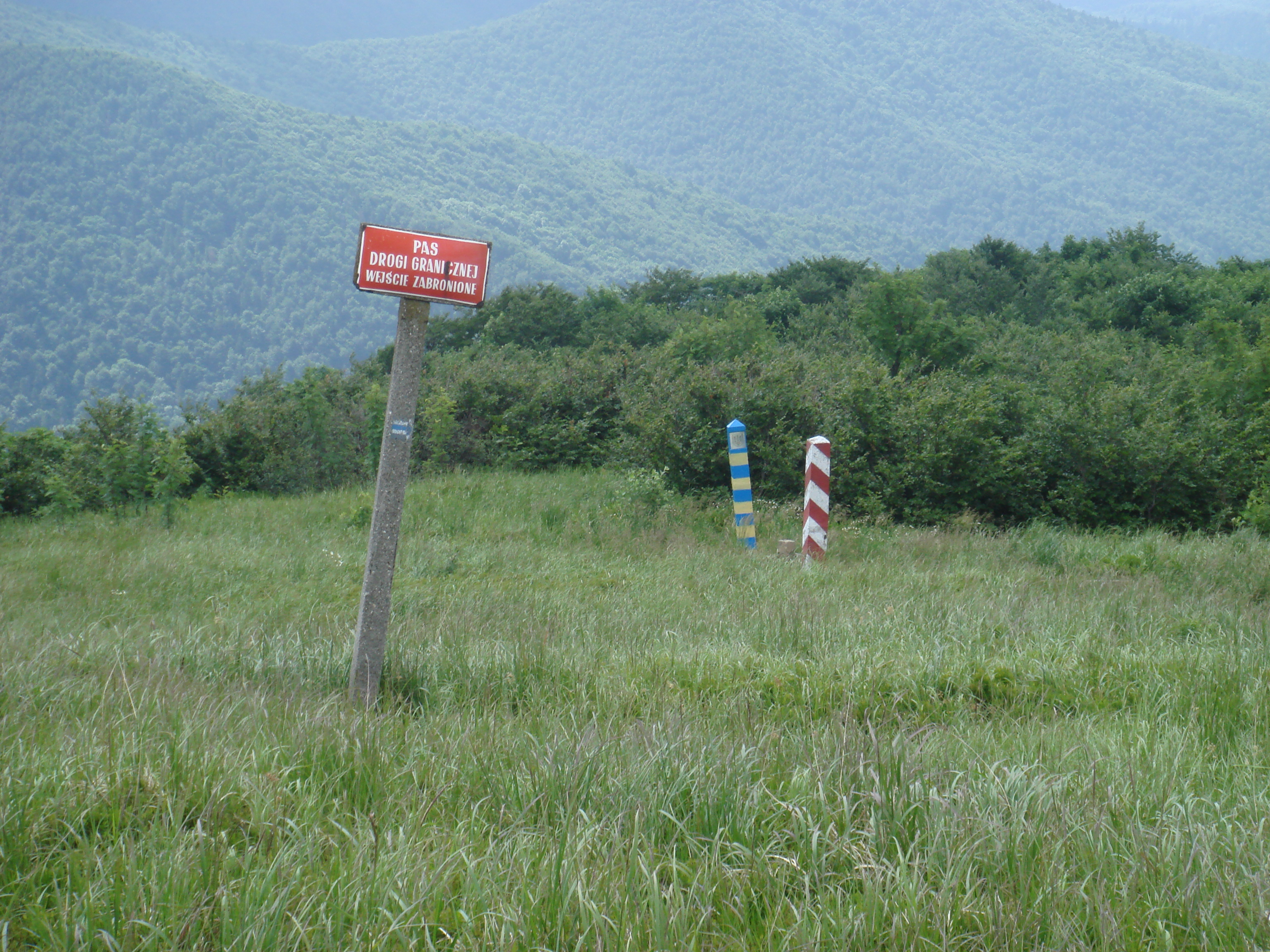 The Polish-Ukrainian border under the Wielka Rawka mountain.